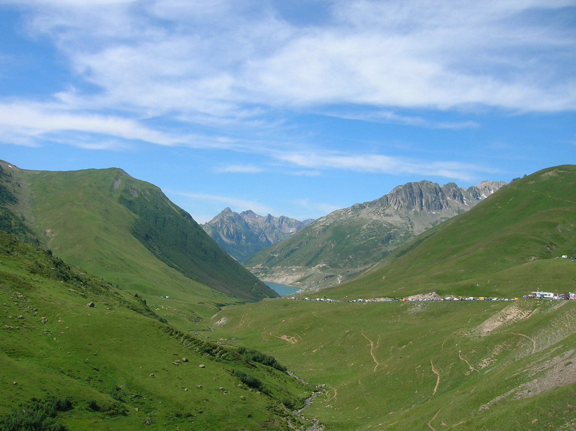 Just before arriving at Col de la Croix de Fer: View to South West